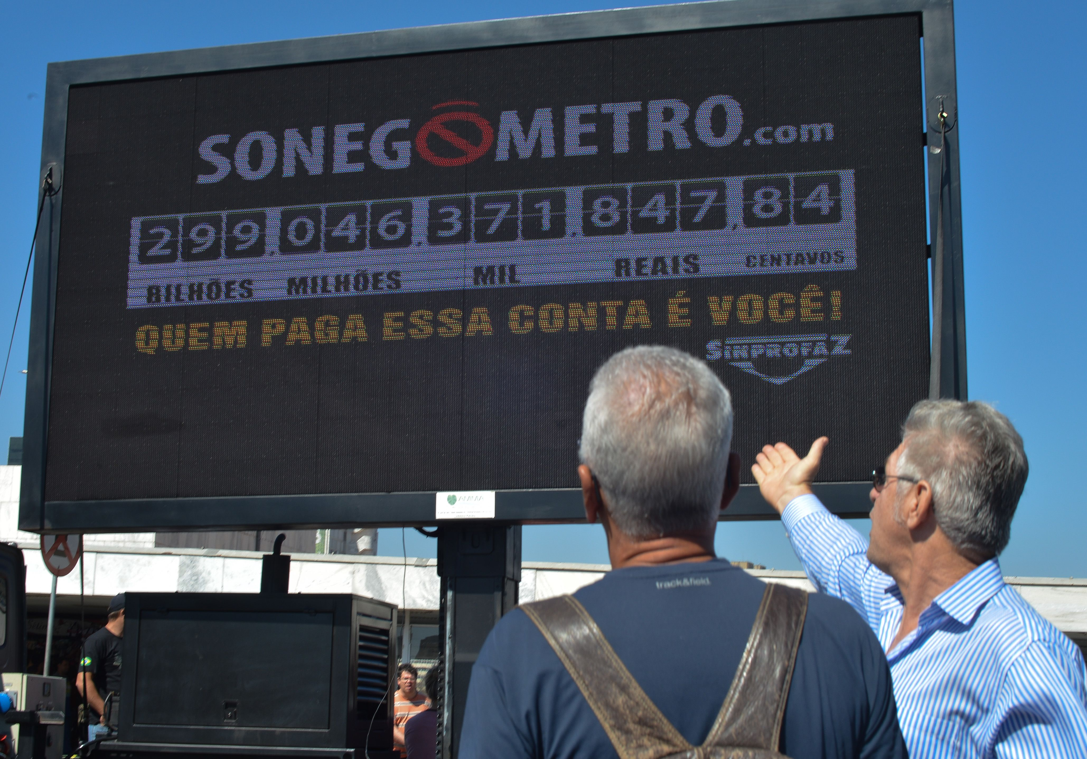 Photo by Marcello Casal Jr./Agência Brasil CCBY3.0